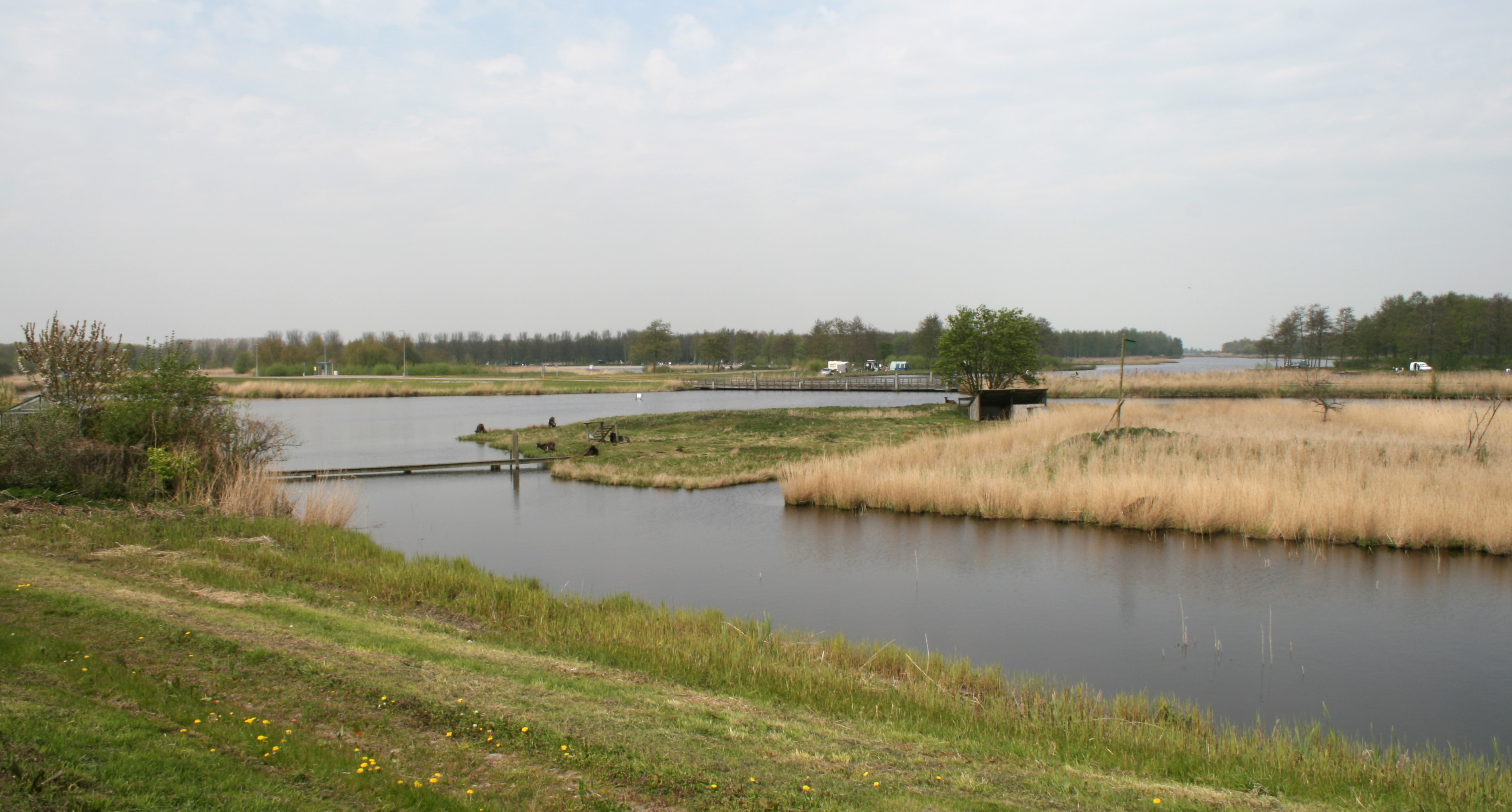 Nature area Het Twiske in Noord-Holland, The Netherlands. Photo taken near the south entrance.